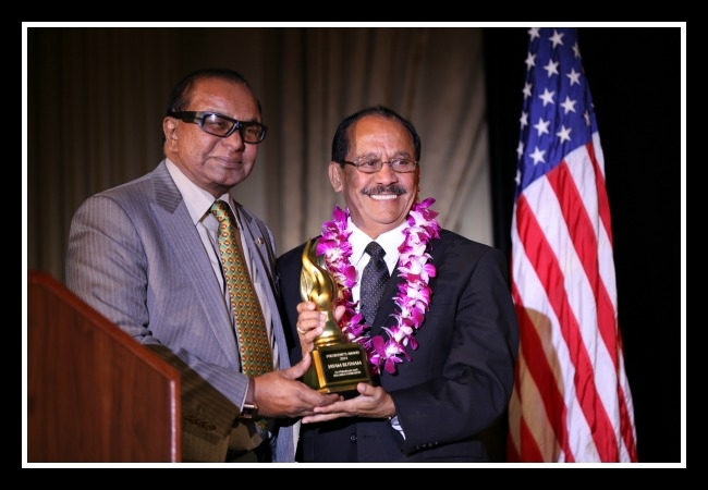 Jayam Rutnam received the main award at the Sri Lanka Foundation Awards, held on Sunday, November 16 at the Millenium Biltmore Hotel in Los Angeles. The award was presented by Sri Lanka Foundation President, Dr. Walter Jayasinghe. Jayam, who has lived in Los Angeles for the past 50 years, was honoured for his work with the Sri Lankan expatriate community in Southern California.